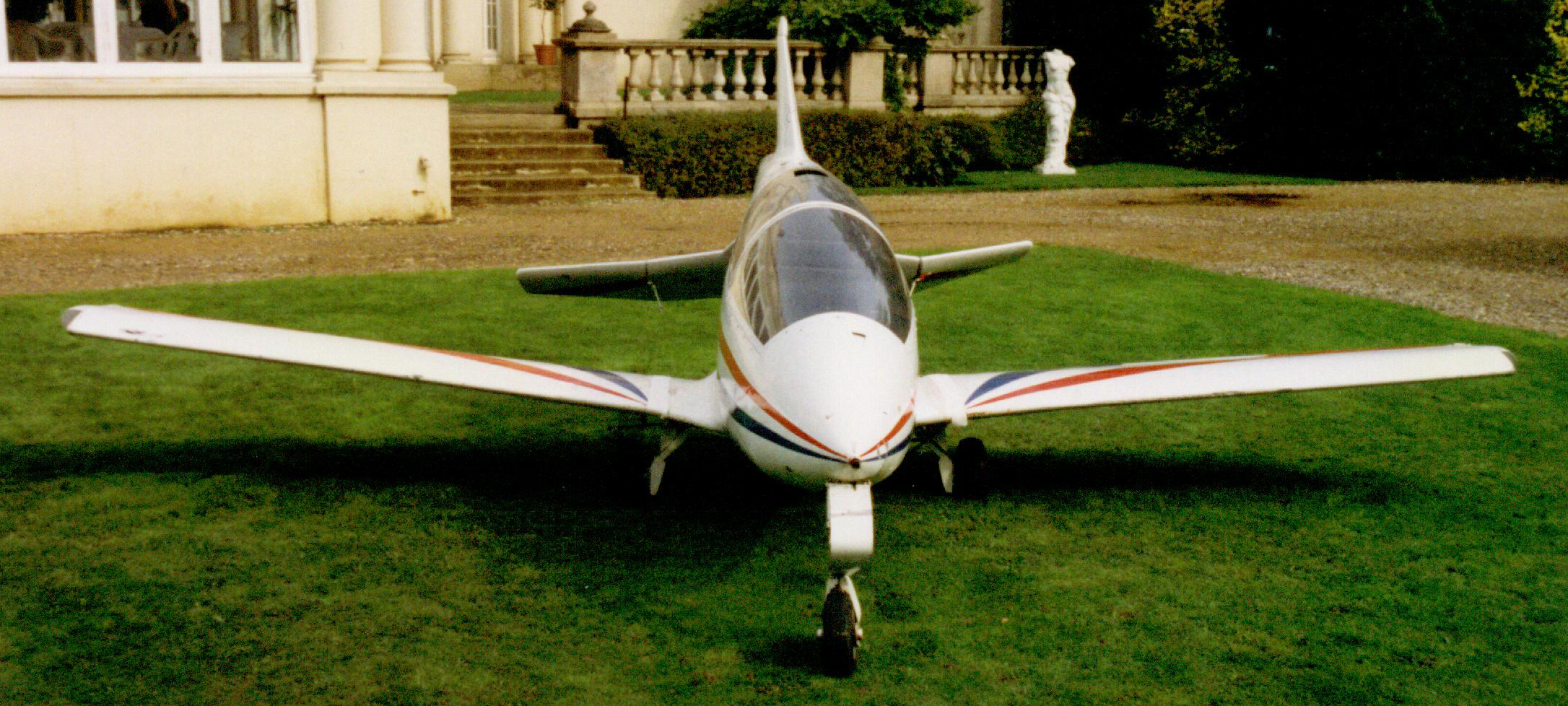 Acrostar, the small plane with wings that fold up, that figured in the pretitle sequence in Octopussy, here at a James Bond convention in 1992. True designation, Bede BD-5J. Photograph by Lennart Guldbrandsson